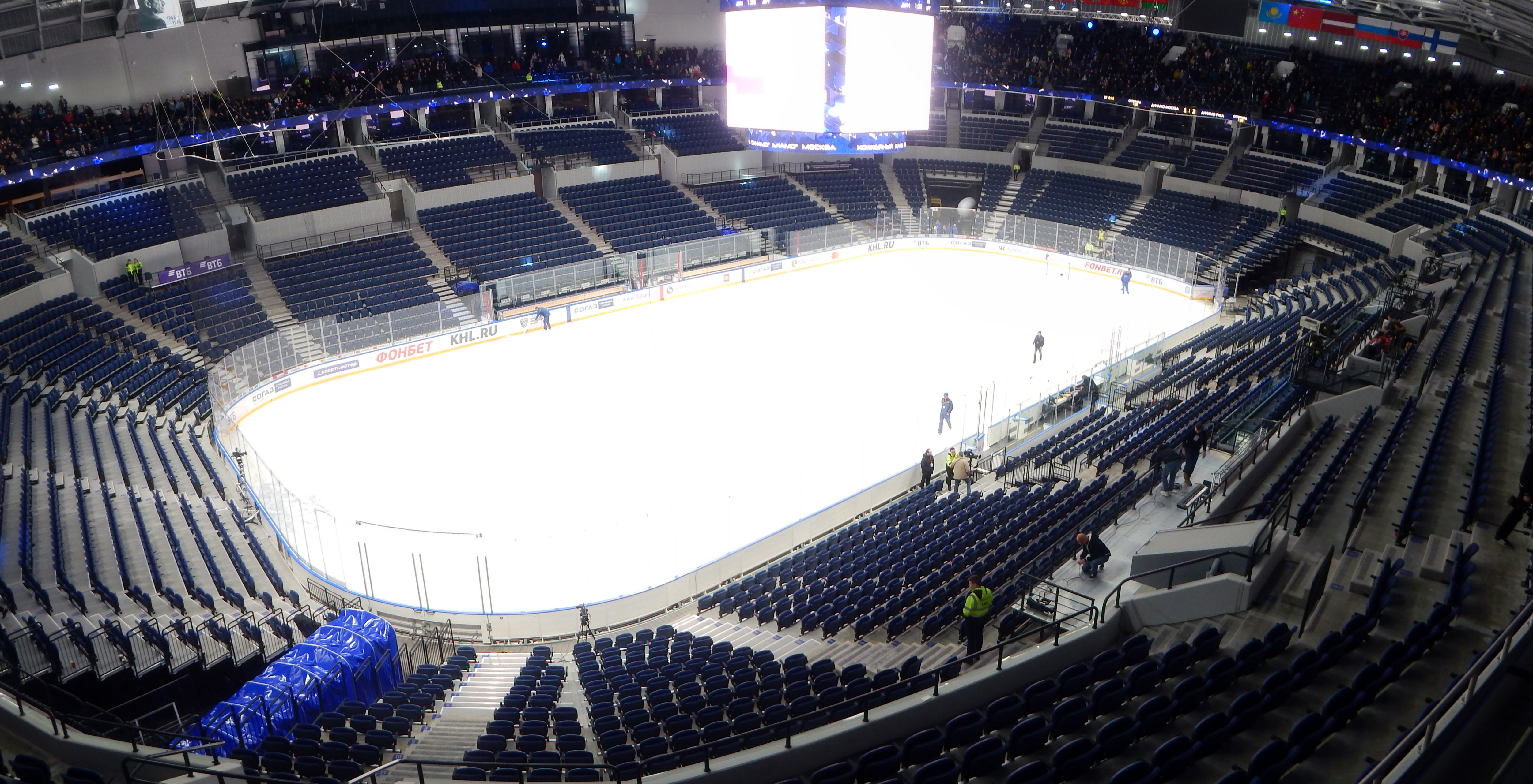 Panorama of ice hockey arena of Dynamo Stadium in Moscow after the match